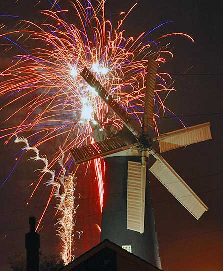 Waltham Windmill fireworks display, November 2007.